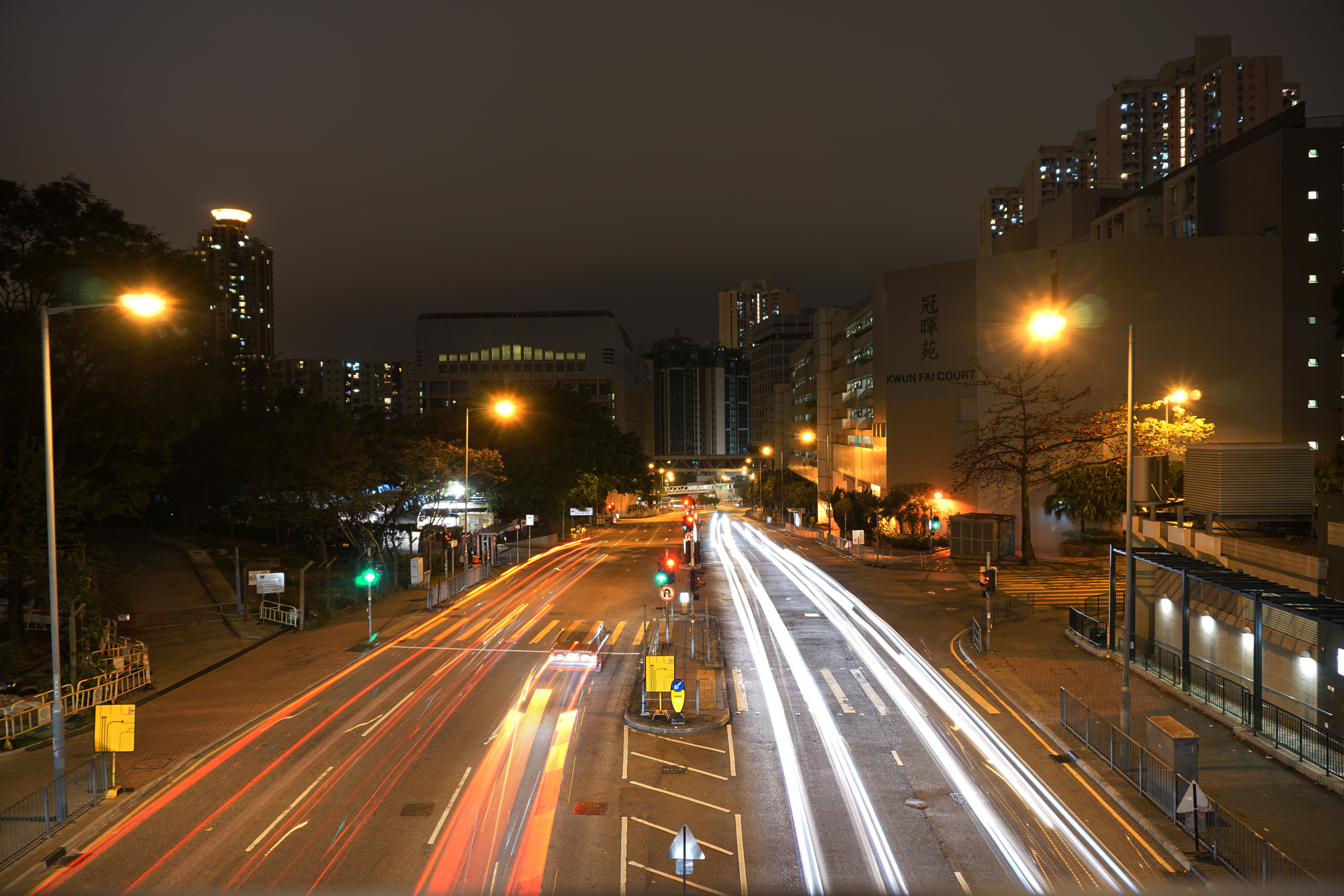 Fat Kwong Street in Ho Man Tin, Hong Kong.